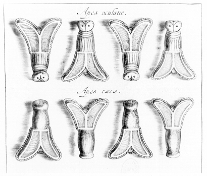 Detailed drawing of the golden bees/flies discovered in the tomb of Childeric I in Tournai on 27 May 1653. Drawn by J. J. Chifflet in 1655.